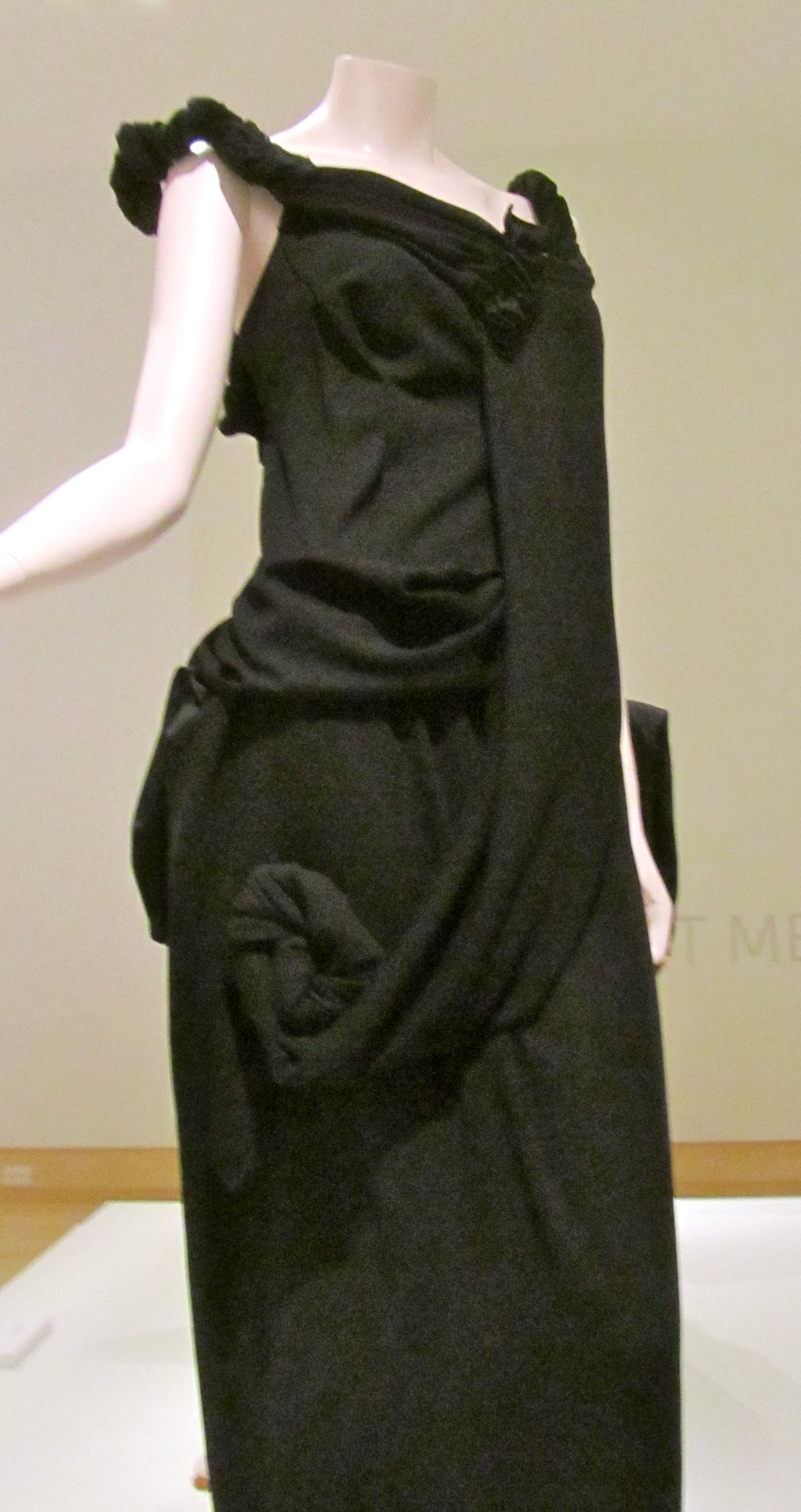 Yohji Yamamoto polyester gown from 1998